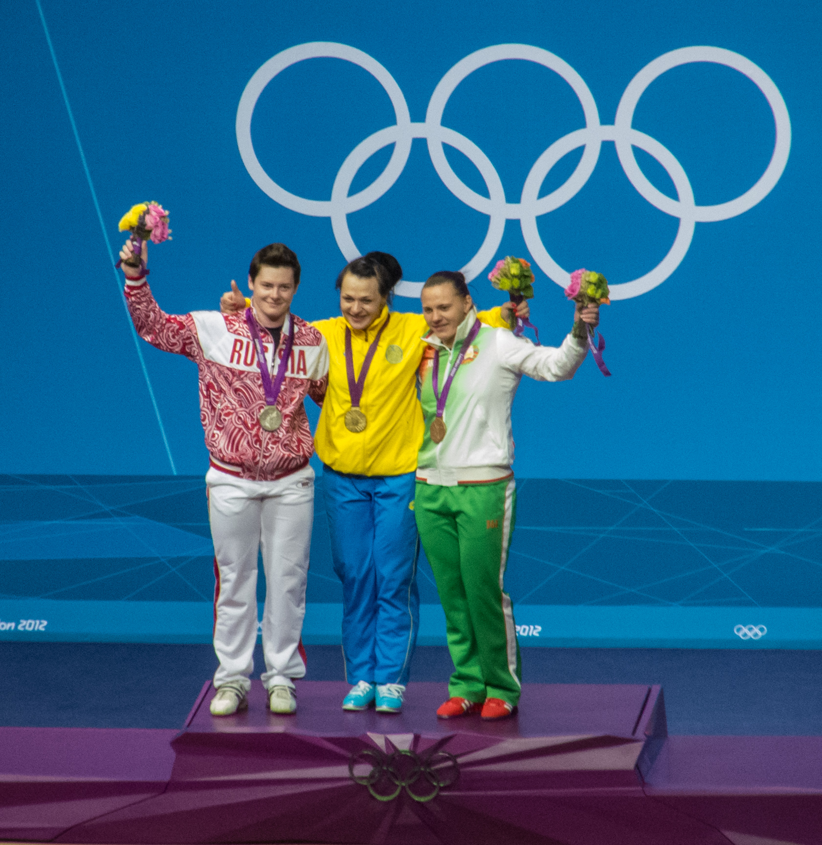 Medalists. Left to right: Natalia Zabolotnaya of Russia (silver), Svetlana Podobedova of Kazakhstan (gold), and Iryna Kulesha of Belarus (bronze)